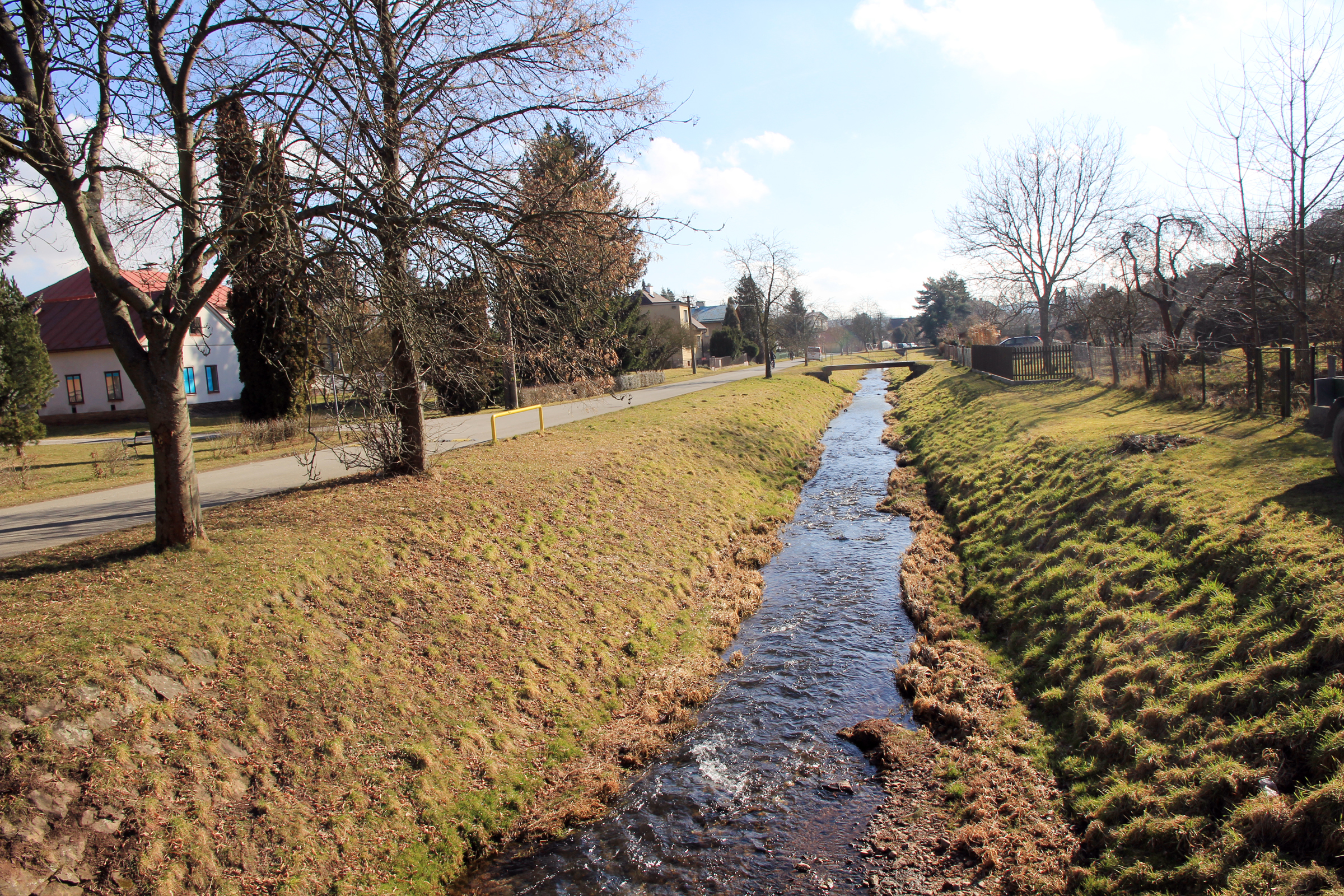 Small river Javorka in Lázně Bělohrad, Czech Republic